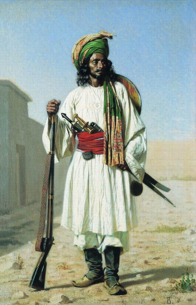 Security personel of Afghanistan